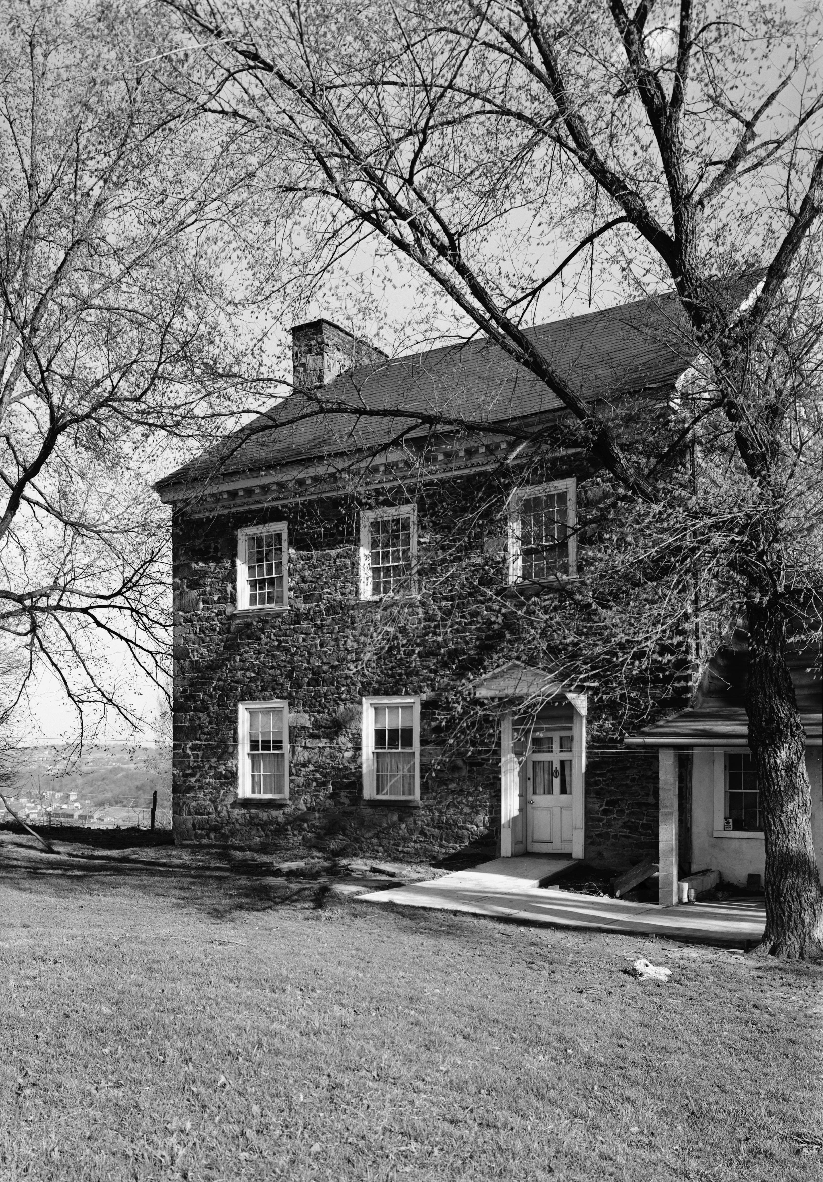 Rear of the Joseph Dorsey House, located at 113 Cherry Avenue in Centerville, Pennsylvania, United States. Built in 1787, it is listed on the National Register of Historic Places.